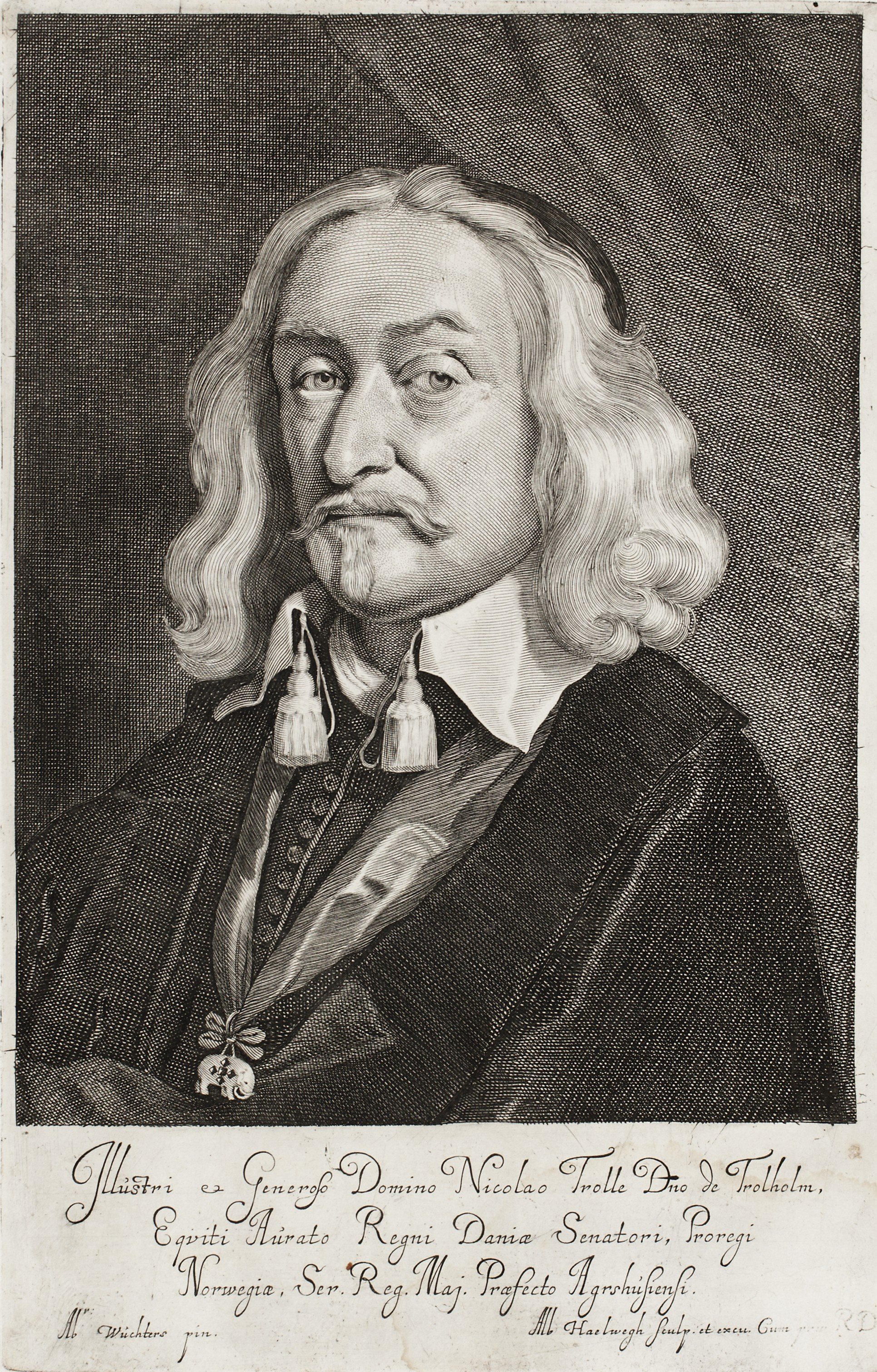 Note: For documentary purposes the original description has been retained. Factual corrections and alternative descriptions are encouraged separately from the original description.Porträtt av Niels Trolle till Trolholm, 1650-tal. Nyckelord: Tassels, Hår, Föremålsbild, 1600-tal